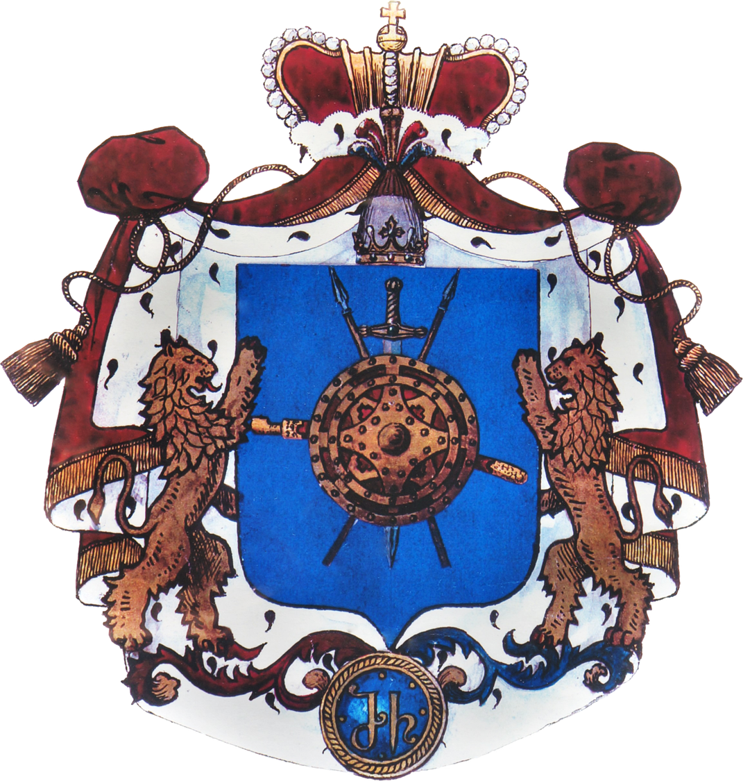 Chichua (ჩიჩუა) Crest (Coat of Arms)